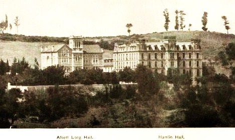 Robert Kolej (Boğaziçi Üniversitesi) Albert Long Hall & Hamlin Hall old